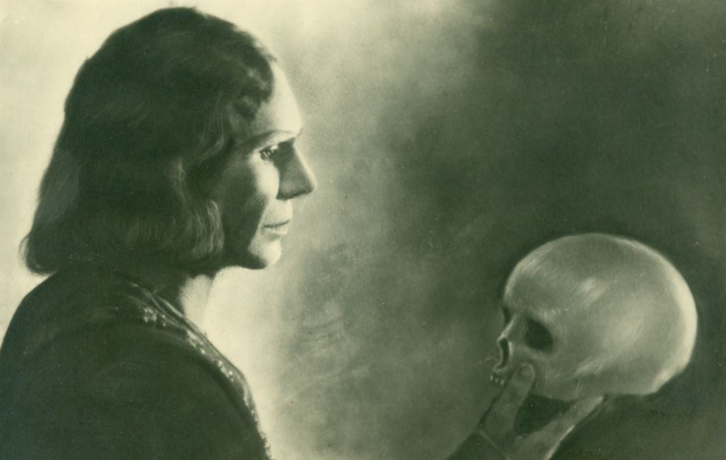 Sharifzade as Hamlet